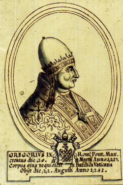 Sketch of Pope Gregory IX by 17th century artist